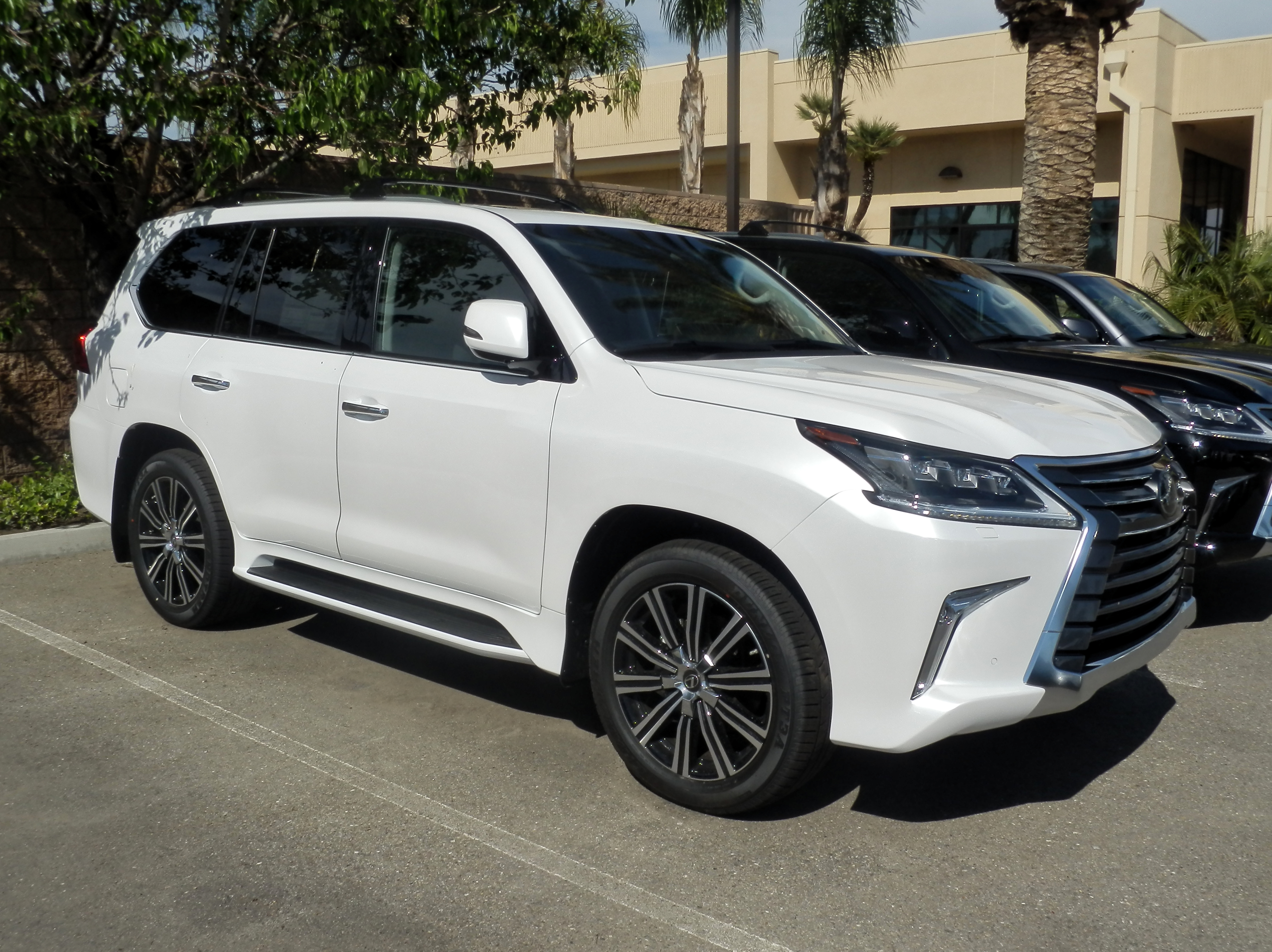 Lexus LX in Bakersfield